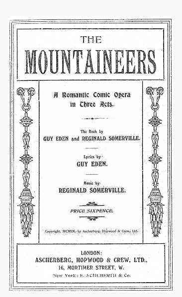 Scan of cover of the vocal score of The Mountaineers, published 1909 by Ascherburg, Hopwood & Crew